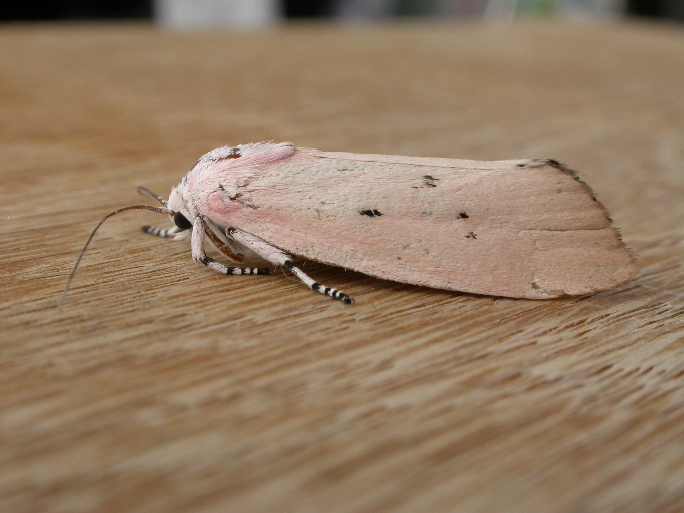 Cryptophasa hyalinopa (Lower, 1901), to MV light, Aranda, ACT, 15/16 January 2011